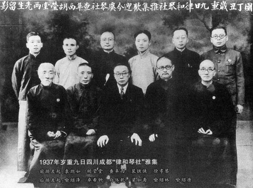 yaji of one guqin society in 1937 with many famous players in the photo